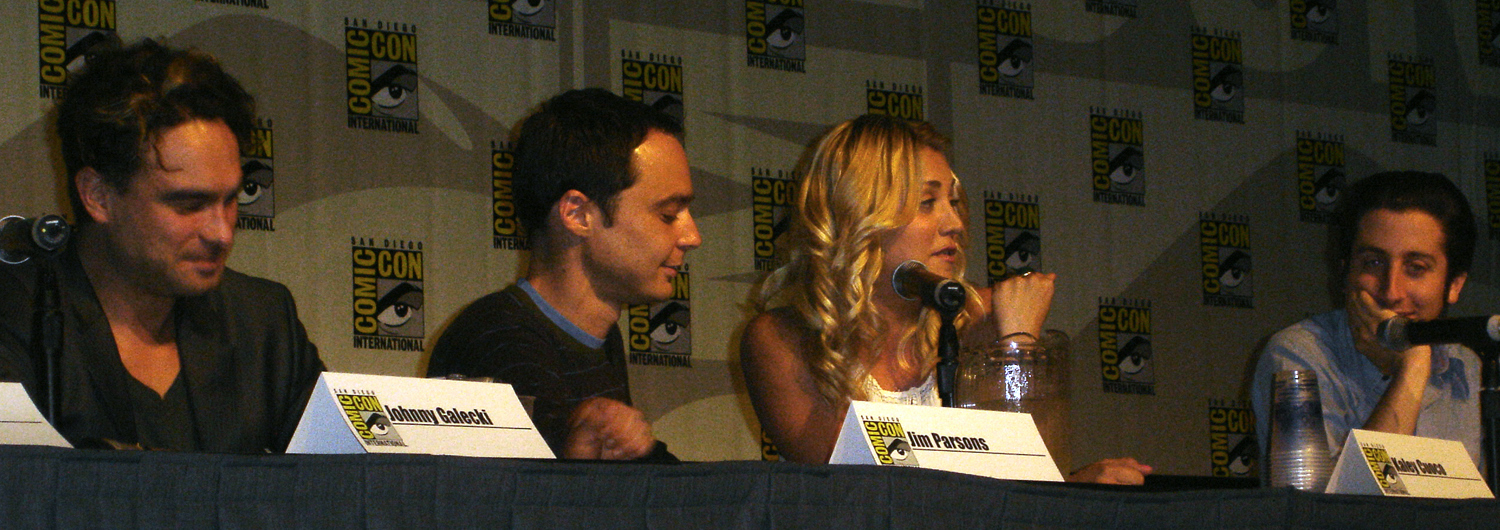 The cast of The Big Bang Theory on a panel at Comic Con 2008. From left to right: Johnny Galecki, Jim Parsons, Kaley Cuoco and Simon Helberg.